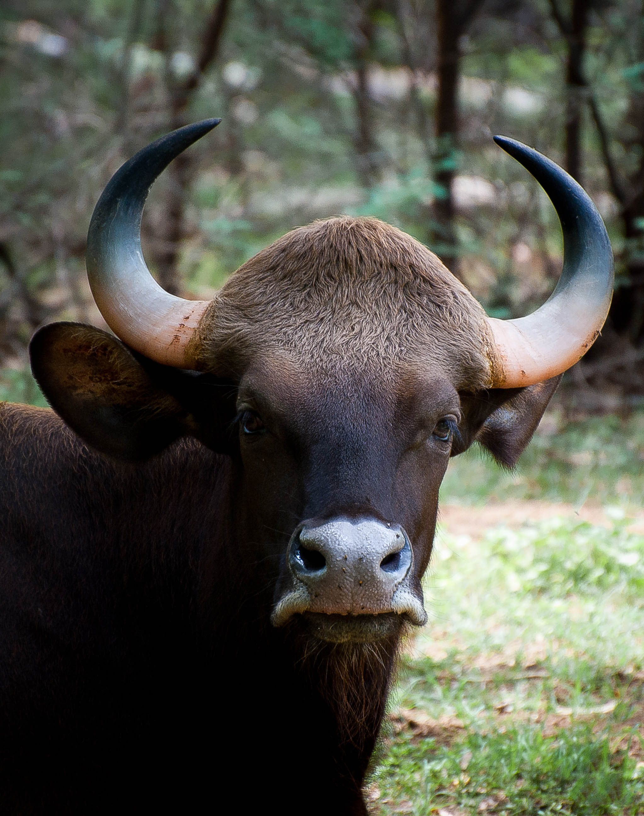 Shot at Vandalur zoo, Chennai, TN, India